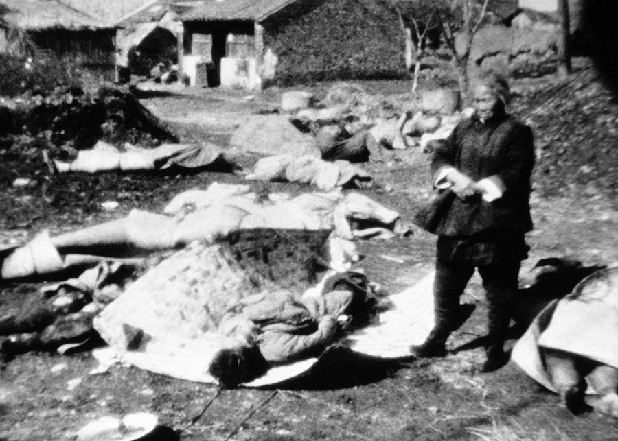 Horrible death wiped out all but two of a Chinese family of 11 when 30 Japanese soldiers broke to the house, Dec. 13. (LIFE. May 16, 1938) "On December 13, about 30 soldiers came to a Chinese house at #5 Hsing Lu Koo in the southeastern part of Nanking, and demanded entrance. The door was open by the landlord, a Mohammedan named Ha. They killed him immediately with a revolver and also Mrs. Ha, who knelt before them after Ha's death, begging them not to kill anyone else. Mrs. Ha asked them why they killed her husband and they shot her dead. Mrs. Hsia was dragged out from under a table in the guest hall where she had tried to hide with her 1 year old baby. After being stripped and raped by one or more men, she was bayoneted in the chest, and then had a bottle thrust into her vagina. The baby was killed with a bayonet. Some soldiers then went to the next room, where Mrs. Hsia's parents, aged 76 and 74, and her two daughters aged 16 and 14. They were about to rape the girls when the grandmother tried to protect them. The soldiers killed her with a revolver. The grandfather grasped the body of his wife and was killed. The two girls were then stripped, the elder being raped by 2-3 men, and the younger by 3. The older girl was stabbed afterwards and a cane was rammed in her vagina. The younger girl was bayoneted also but was spared the horrible treatment that had been meted out to her sister and mother. The soldiers then bayoneted another sister of between 7-8, who was also in the room. The last murders in the house were of Ha's two children, aged 4 and 2 respectively. The older was bayoneted and the younger split down through the head with a sword. "[1][2]